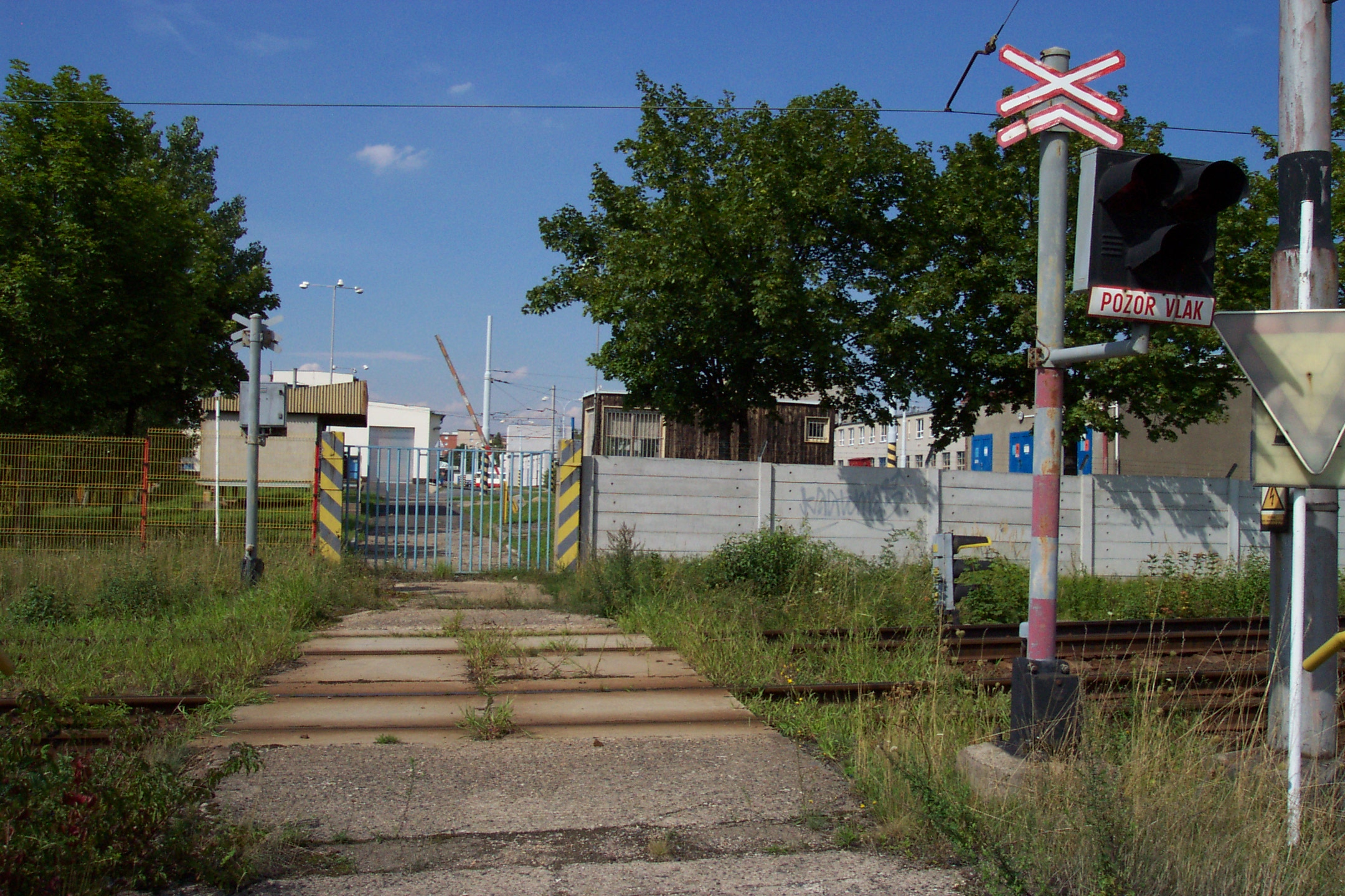 The railway-like crossing of the tram track in Most-Velebudice. Probably not-working.